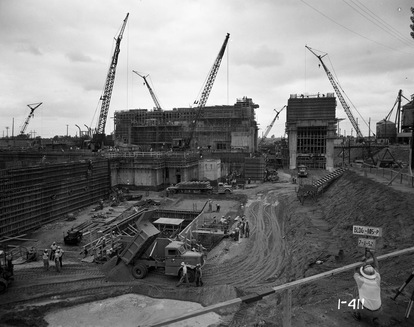 These photos from the 1950s show the construction of Savannah River Site’s P and R Reactors, as well as activities at the reactors once they became operational that decade. Each of the reactors, which formerly produced nuclear materials, occupies more than 300,000 square feet of space.